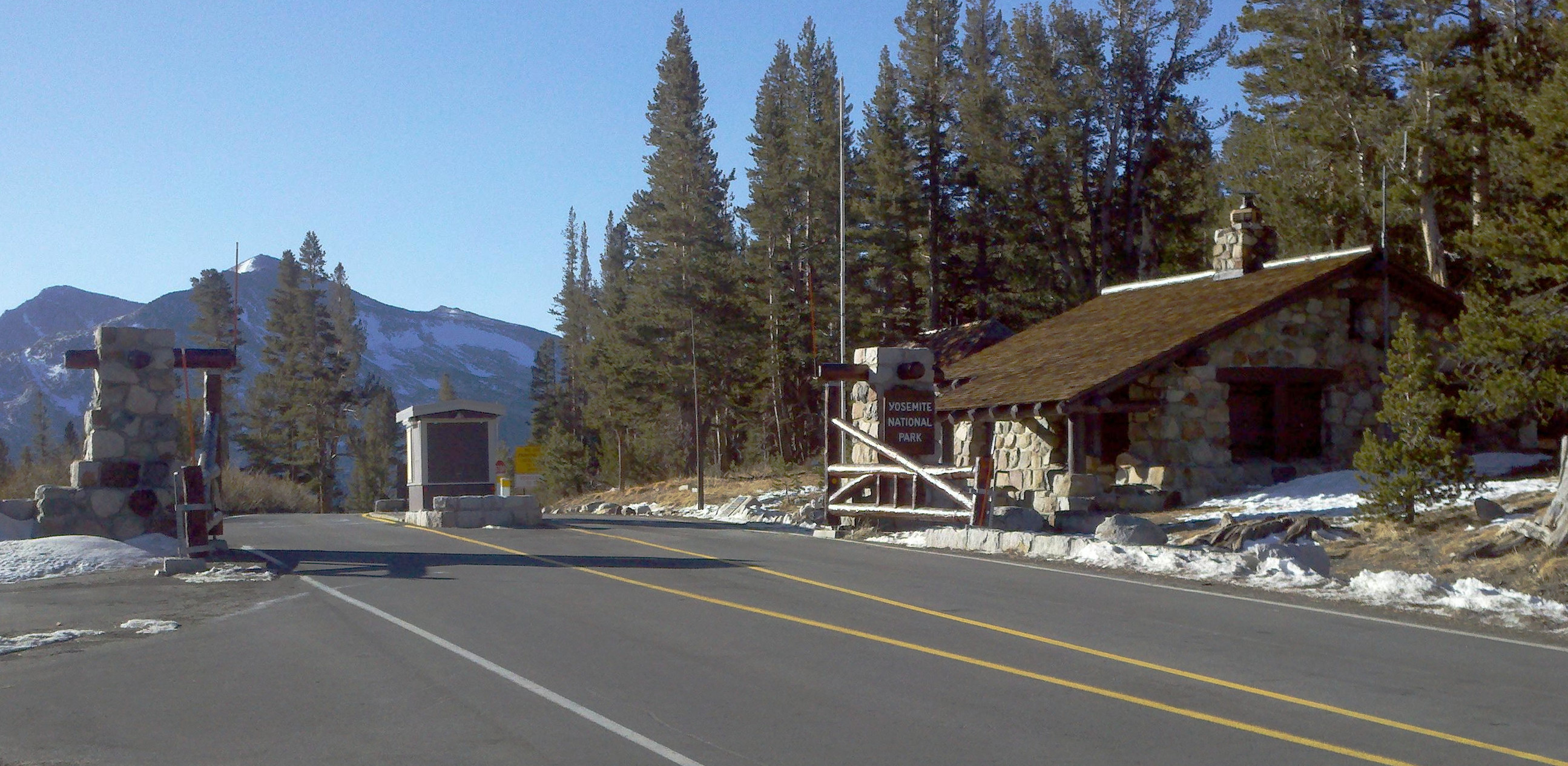 The eastern entry station to Yosemite National Park located at Tioga Pass. Photo by Jim Heaphy.